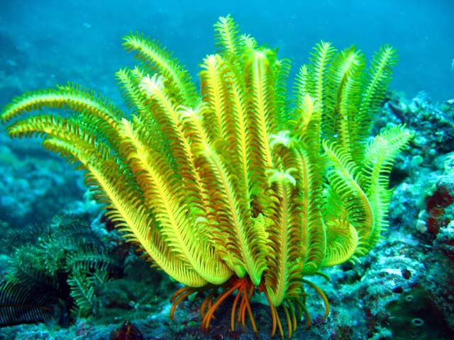 Feather star, Bali, Indonesia